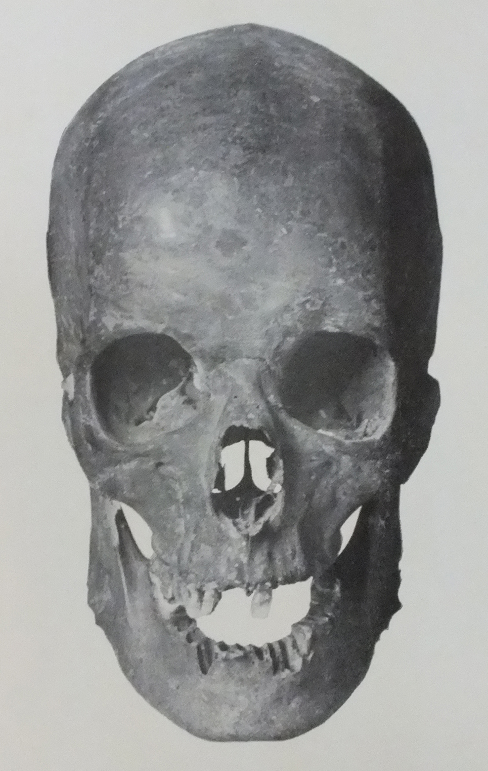 Complete skull of St. Wenceslas, the Prince of Bohemia, including the lower jaw.